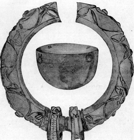 On Broighter, Limavady, County Londonderry, and on the Find of Gold Ornaments There in 1896 Robert Cochrane The Journal of the Royal Society of Antiquaries of Ireland, Fifth Series, Vol. 32, No. 3